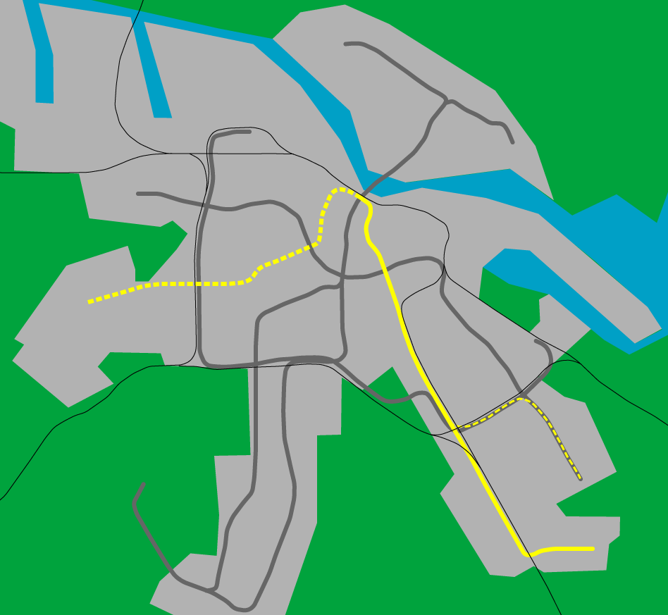 the "Oostlijn" as originally planned, with never built extension to Osdorp.